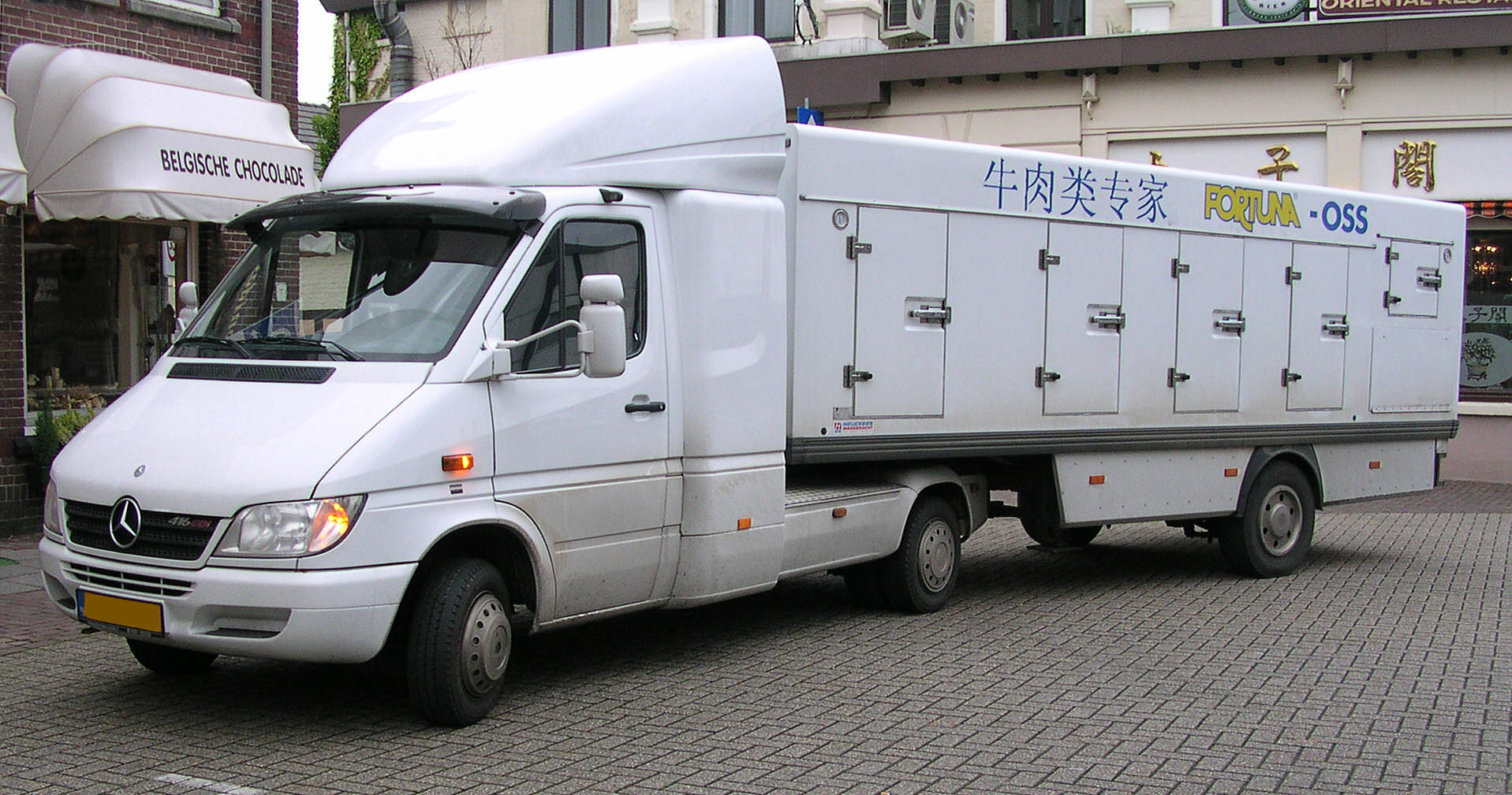 Mercedes Benz Sprinter with refrigerator trailer